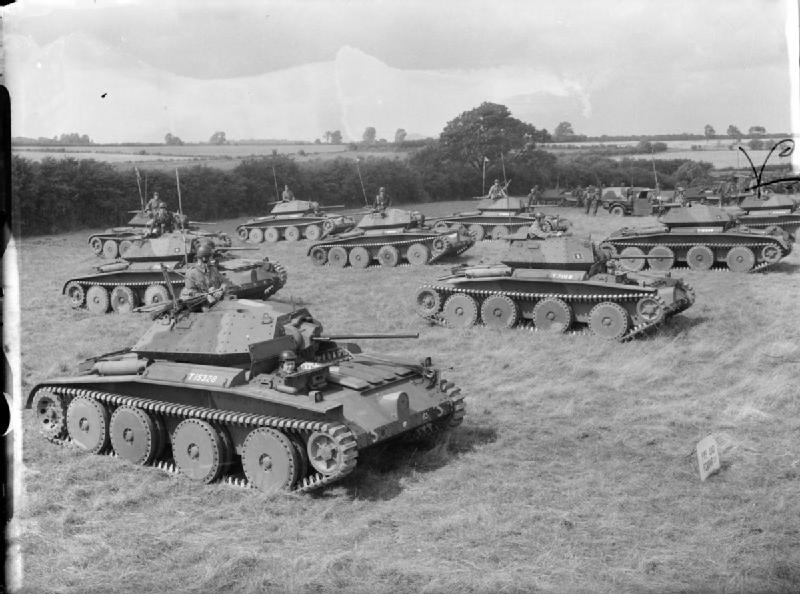 The British Army in the United Kingdom 1939-45 Covenanter tanks of the Fife and Forfar Yeomanry, 9th Armoured Division, on parade at Guisborough in Yorkshire, 19 August 1941.